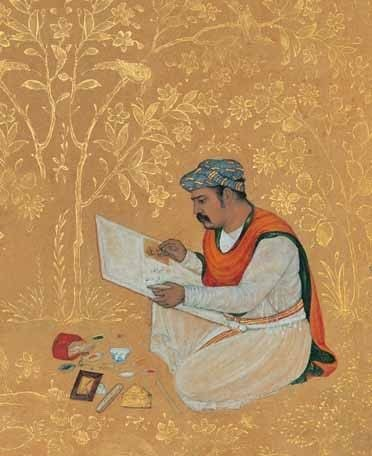 Self-portrait by (Muhammad) Daulat (or Dawlat) was a leading artist of Mughal painting, active on imperial commissions between about 1595 and 1635-1640. From the Gulshan Album, c. 1610, Golestan Palace Library, Tehran. See Rice, Yael, "Between the Brush and Pen; on the Intertwined Histories of Mughal Painting and Calligraphy", in Envisioning Islamic Art and Architecture: Essays in Honor of Renata Holod, edited by David J. Roxburgh